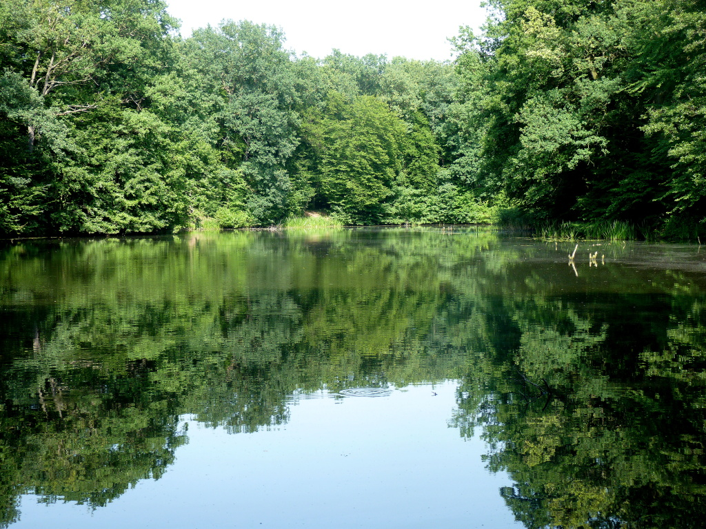 Natural monument Veltrubský luh.